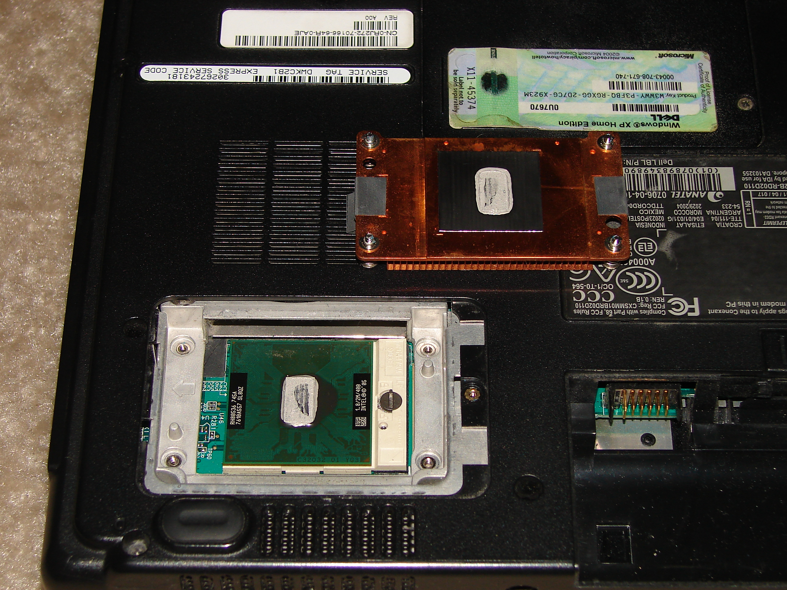 Processor and heatsink after applying thermal compoud